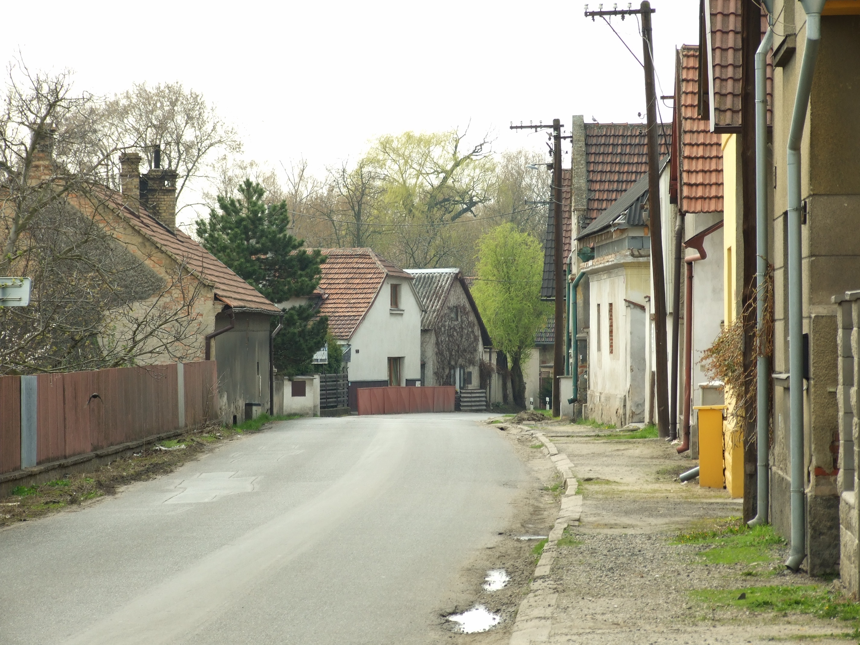 A road in Přívory (part of Všetaty), Mělník District, Central Bohemian Region, CZ